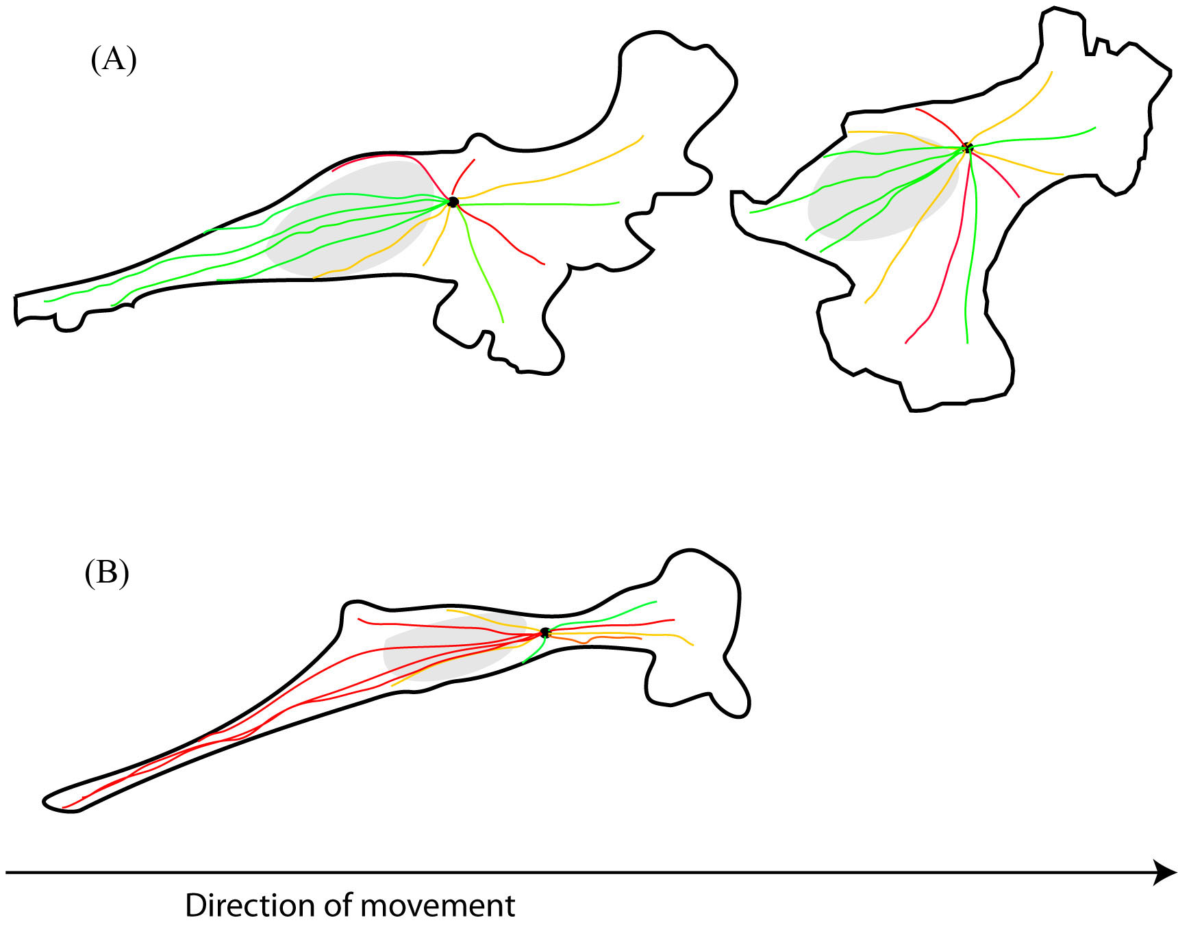 Role of microtubules in cell migration